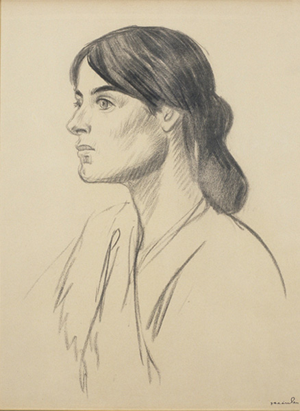 Portrait drawing of Suzanne Valadon by Théophile-Alexandre Steinlen (1859-1923). Gray crayon on beige paper, 62 x 46 cm.